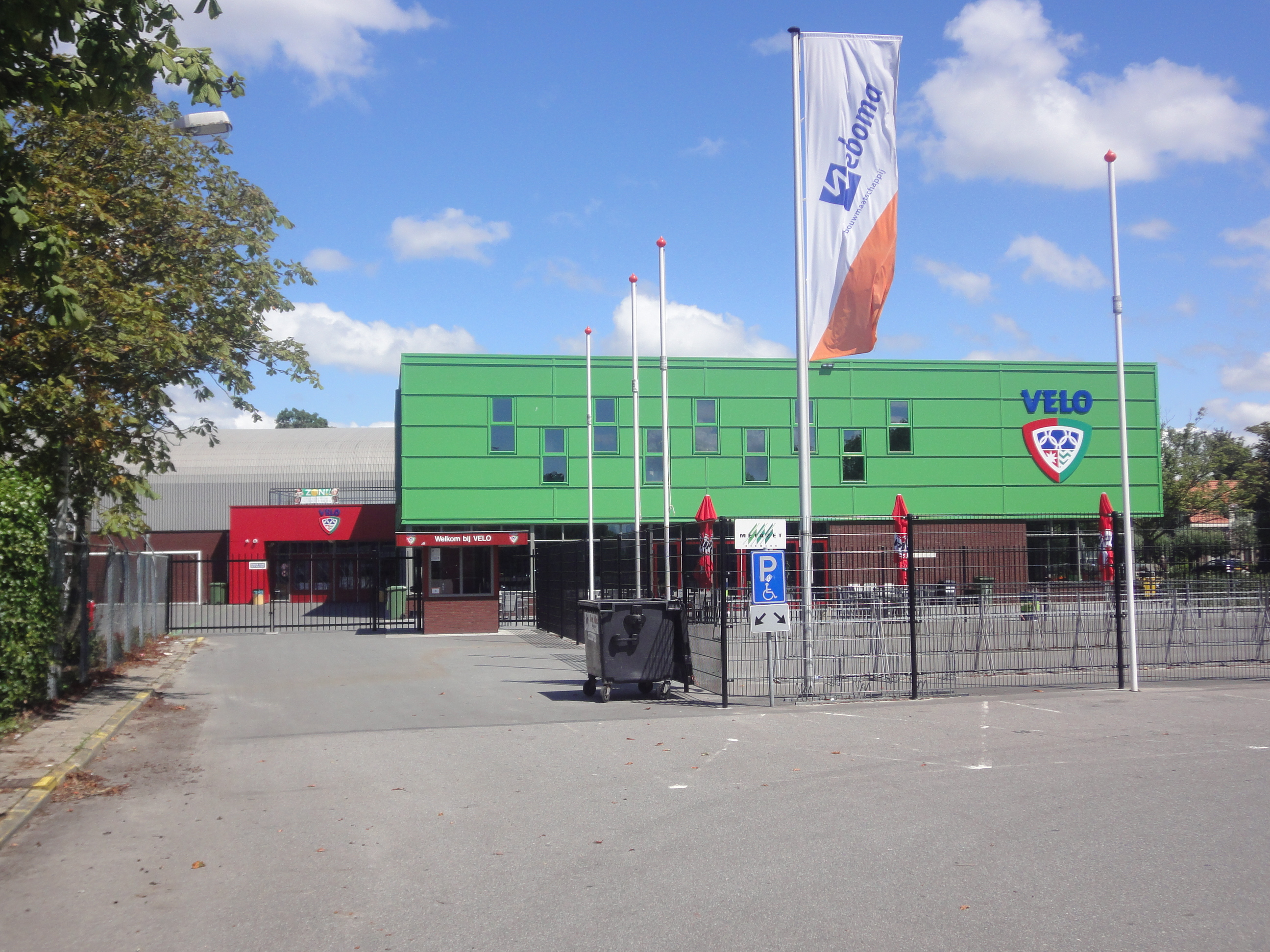 VELO (sportsclub)